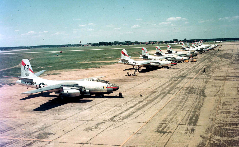 Flightline photo of B-45A-5-NA Tornadoes of the 47th Light Bomb Wing, Langley Air Force Base, Va., before trans-atlantic flight to Sculthorpe, England, in July 1952. Identifiable aircraft are (nearest to farthest) 47-082, 47-089, 47-050, 47-061, 47-058, 47-081, unknown, unknown, 47-059, 47-064, unknown. (U.S. Air Force photo) 47-082 was withdrawn from operational use at RAF Sculthorpe on July 7,1958 and was sent to Boulhaut AB, Morocco for fire practice use. 47-089 was withdrawn from operational use at RAF Sculthorpe on May 13,1958 and was sent to Etain AB, France for fire practice use. 47-050 was stricken off charge at North American Aviation in Inglewood,CA on April 5,1957. 47-061 was withdrawn from operational use at RAF Alconbury on April 4,1958 and was sent to RAF Bentwater for fire practice use. 47-058 was withdrawn from operational use at RAF Sculthorpe by October 1958 and was sent to RAF Greenham Common for fire practice use. 47-081 was withdrawn from operational use at RAF Sculthorpe on July 7,1958 and was sent to Ben Guerir AB, Morocco for fire practice use. 47-059 crashed January 30,1956.